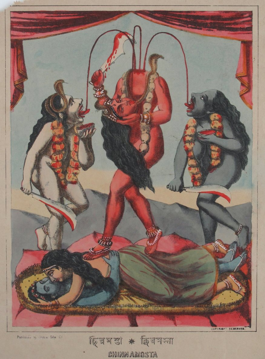 Goddess Chinnamasta - Hand Coloured Lithograph